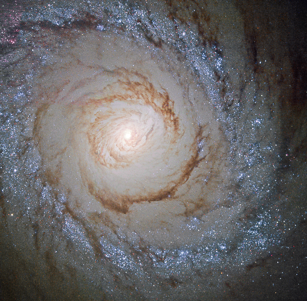 This image shows the galaxy Messier 94, which lies in the small northern constellation of the Hunting Dogs, about 16 million light-years away. Within the bright ring around Messier 94 new stars are forming at a high rate and many young, bright stars are present within it – thanks to this, this feature is called a starburst ring. The cause of this peculiarly shaped star-forming region is likely a pressure wave going outwards from the galactic centre, compressing the gas and dust in the outer region. The compression of material means the gas starts to collapse into denser clouds. Inside these dense clouds, gravity pulls the gas and dust together until temperature and pressure are high enough for stars to be born.